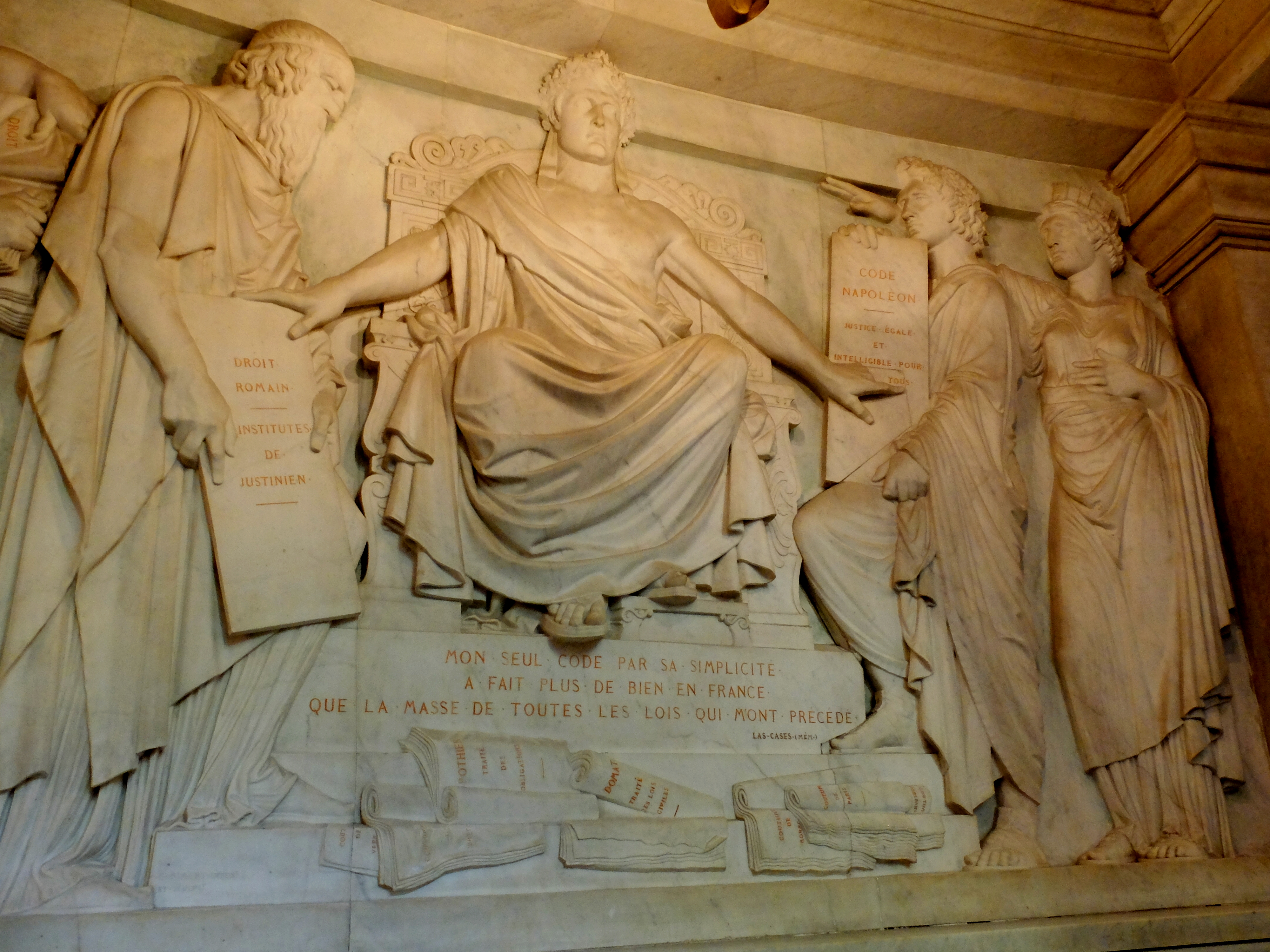 The Code Napoléon in the Dome des Invalides